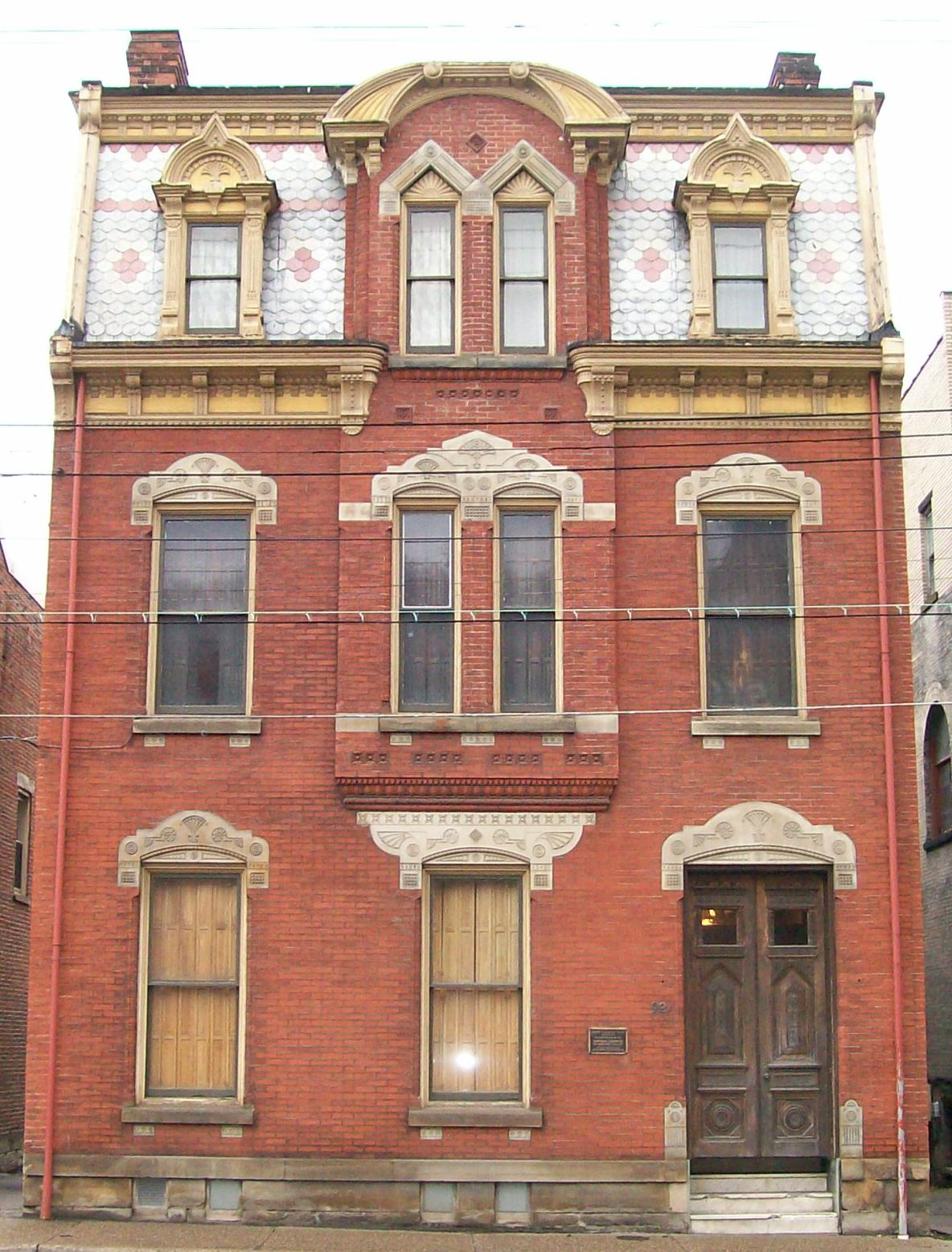 The Robert W. Hazlett House at 921 N. Main Street in Wheeling, West Virginia. The eastern facade is pictured. Placed on the NRHP, taken on 2010-03-28.